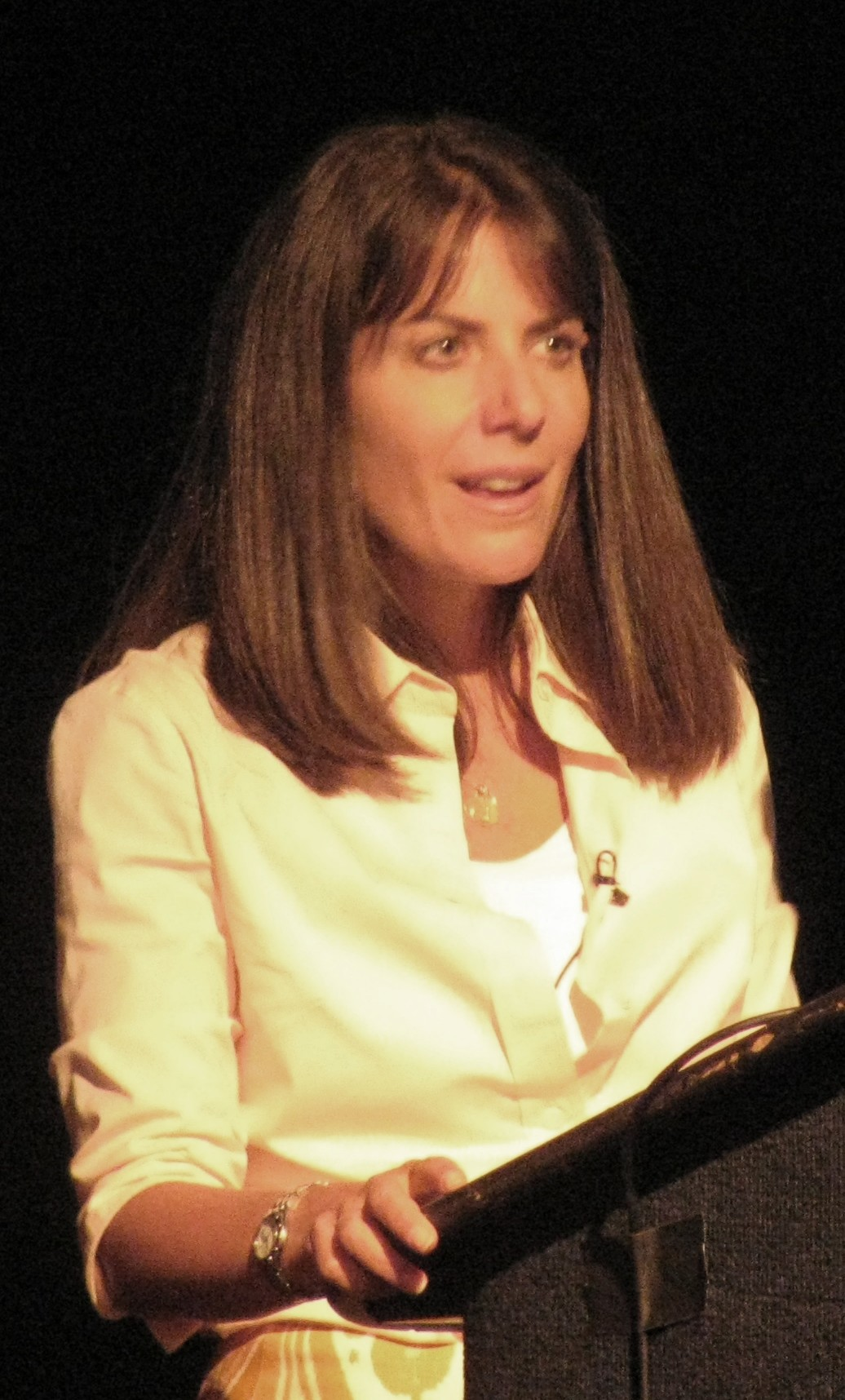 Jean Chatzky speaking at the New York State Fair.